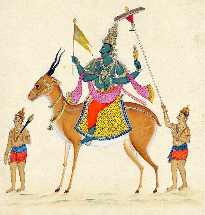 "Painting of the astadikpala Vayu. He is depicted crowned and four-armed and riding on his antelope vahana. In his upper two hands he carries a pennant (right) and club (left). His lower two hands are held in abhayamudra (right) and varadamudra (left). He is accompanied by two attendants - with a club (front) and a parasol held high above him (behind). An impression of perspective is provided by a lightly sketched-in foreground. On laid European paper watermarked with an armorial design."